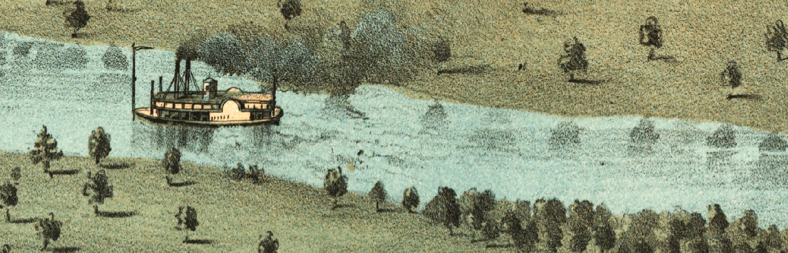 Steamboat chuffing up the Iowa River below Iowa City, 1868, detail.